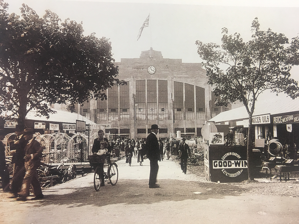 Traders at the front of the main King's Hall building.